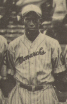 Newt Allen at the 1924 Negro League World Series. LOC states here that there are no restrictions on use of this image, therefore it is PD. This file has been extracted from another file: 1924 Negro League World Series.jpg